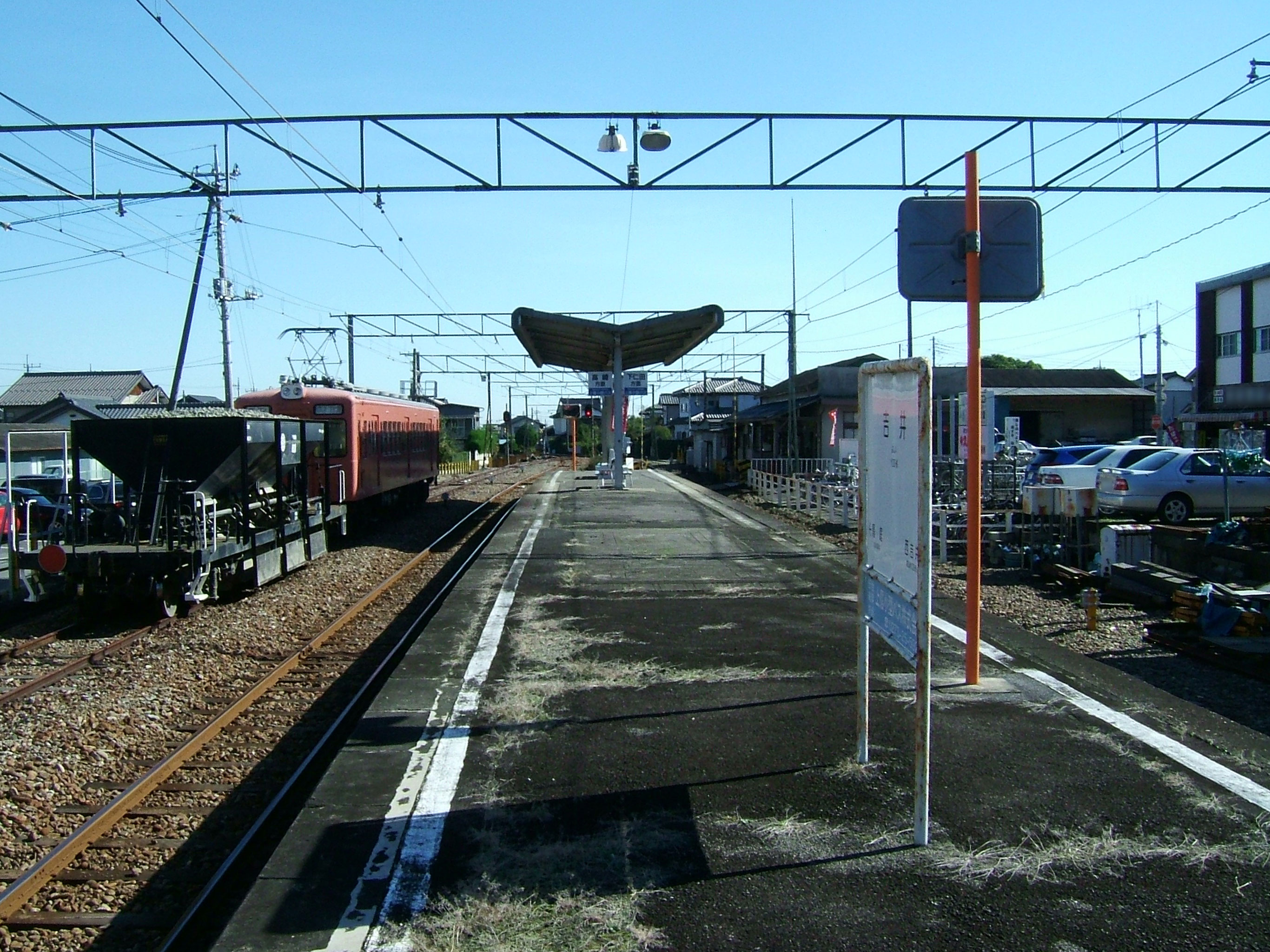 Yoshii Station platform (Jōshin Dentetsu Jōshin Line)